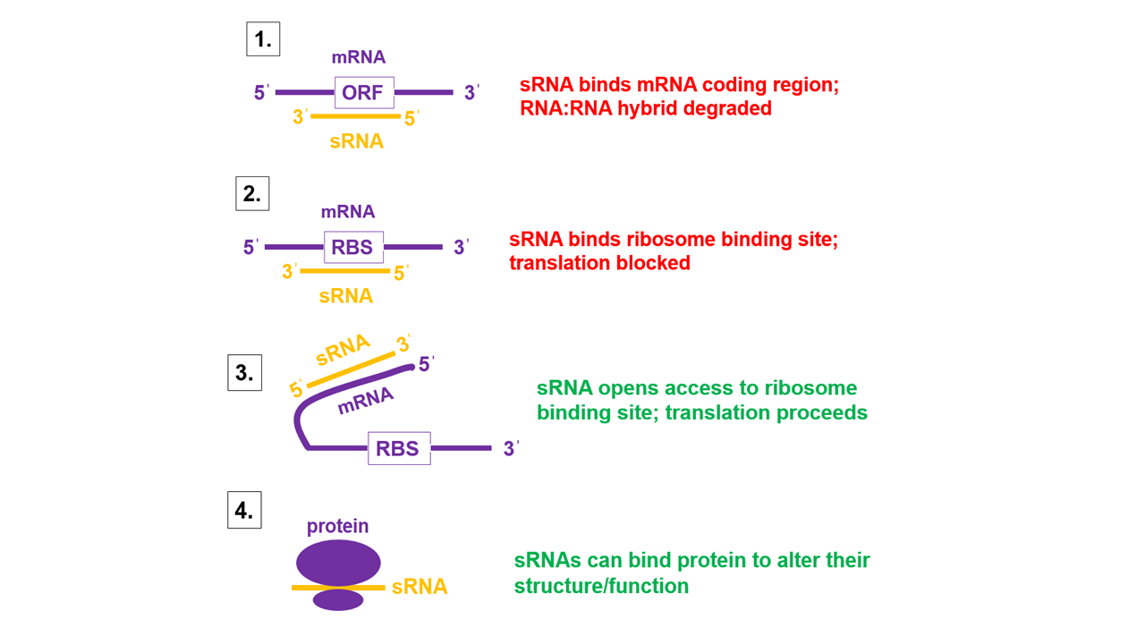 Diagram depicting four common mechanisms of bacterial small RNA interaction with mRNA or protein targets